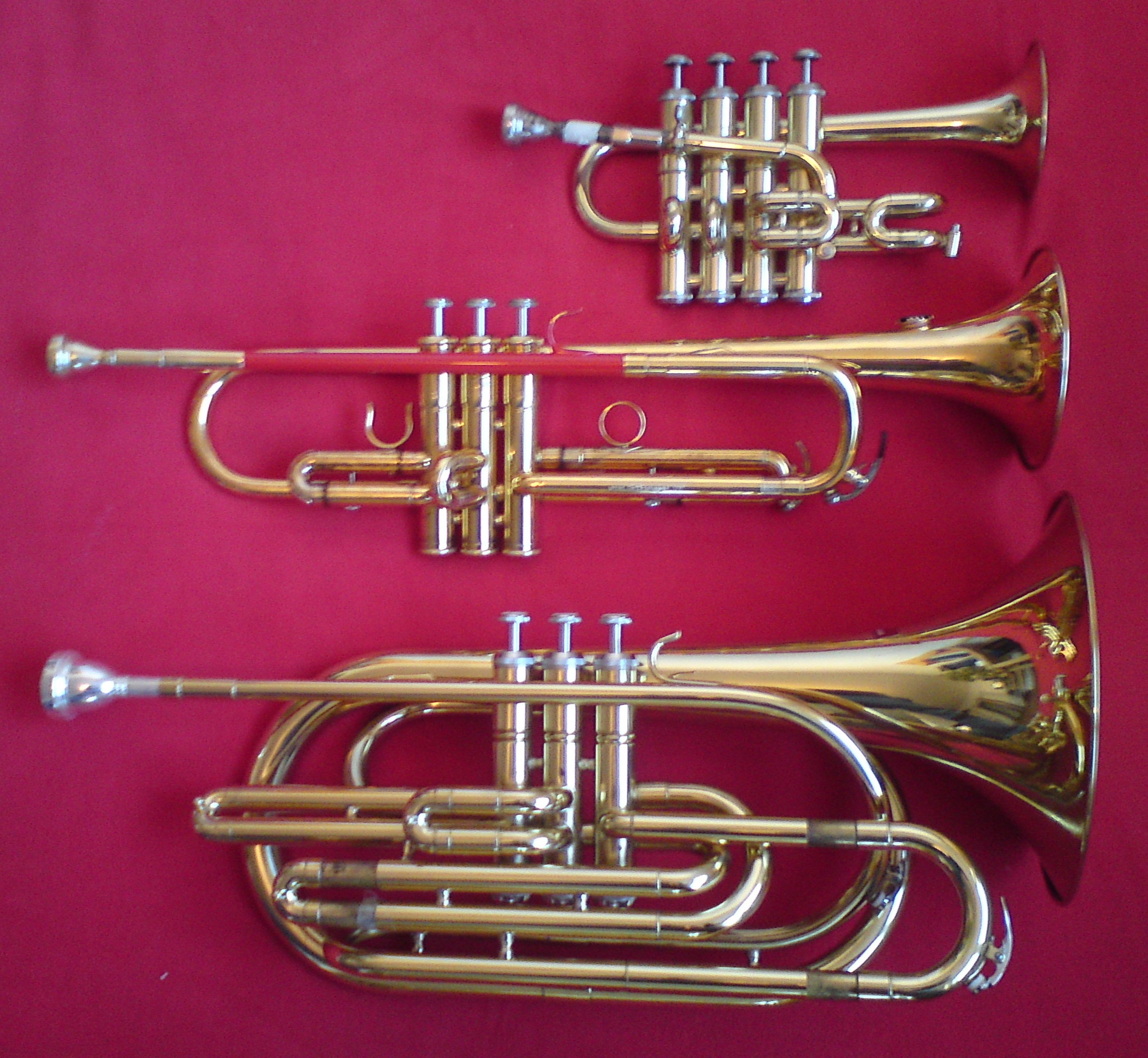 Piccolo Trumpet (Bb), Bass Trumpet (Bb) and Trumpet Bb